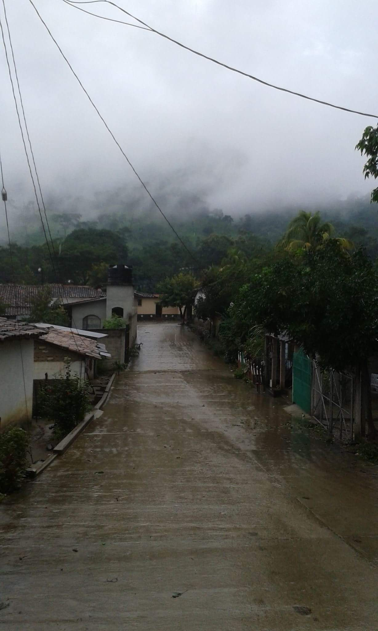 Calle cerca del parque de Virginia